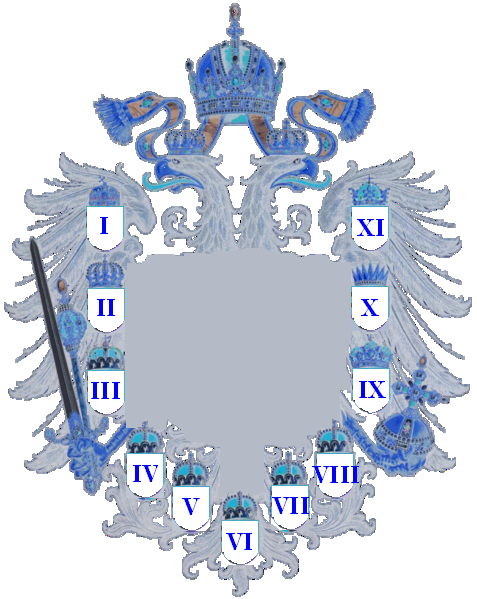 Coat of arms of Austria-Hungary with numbers 1867-1915